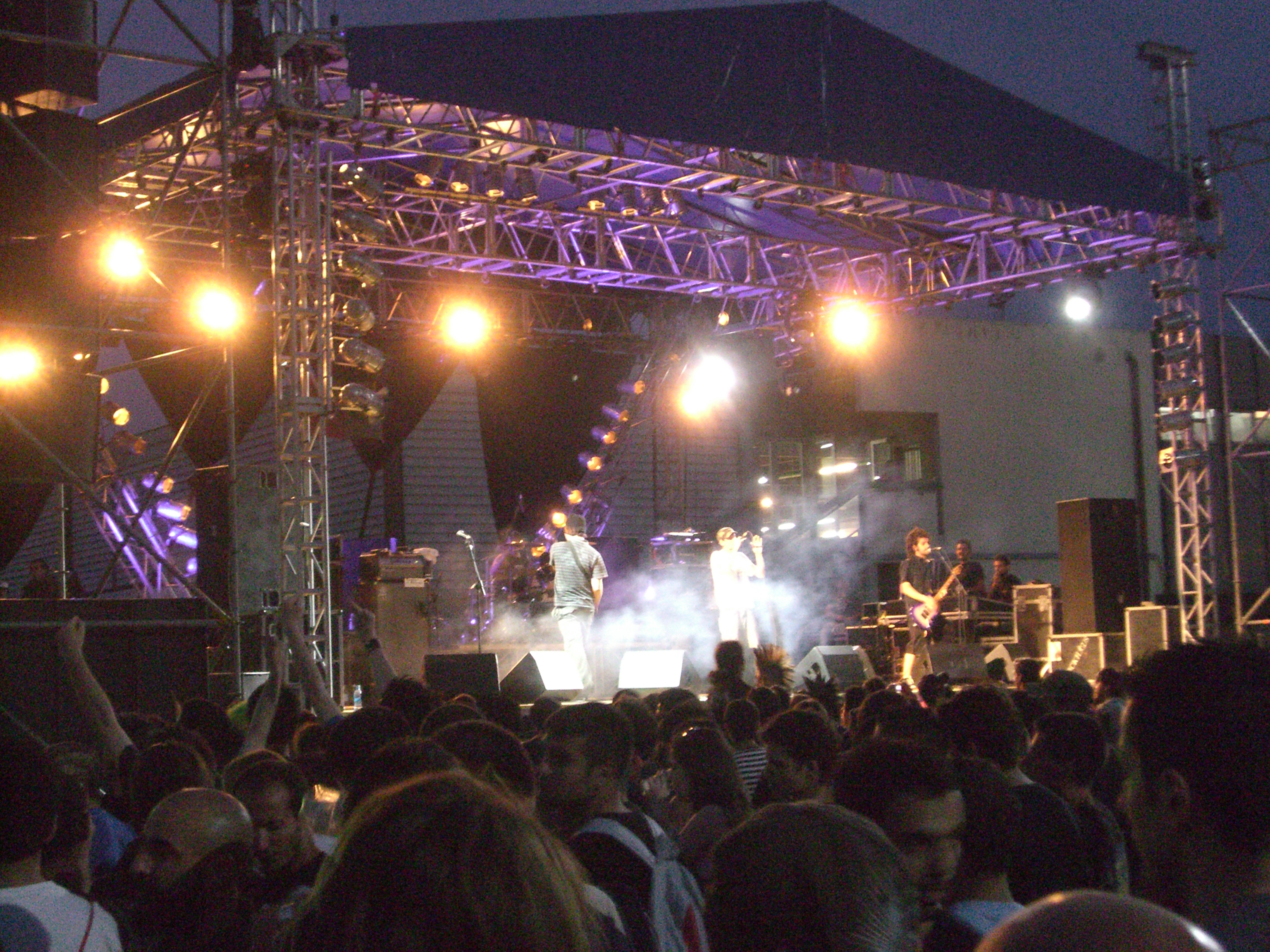 photo of italian punk rock band L'Invasione degli Omini Verdi, live in Cagliari.